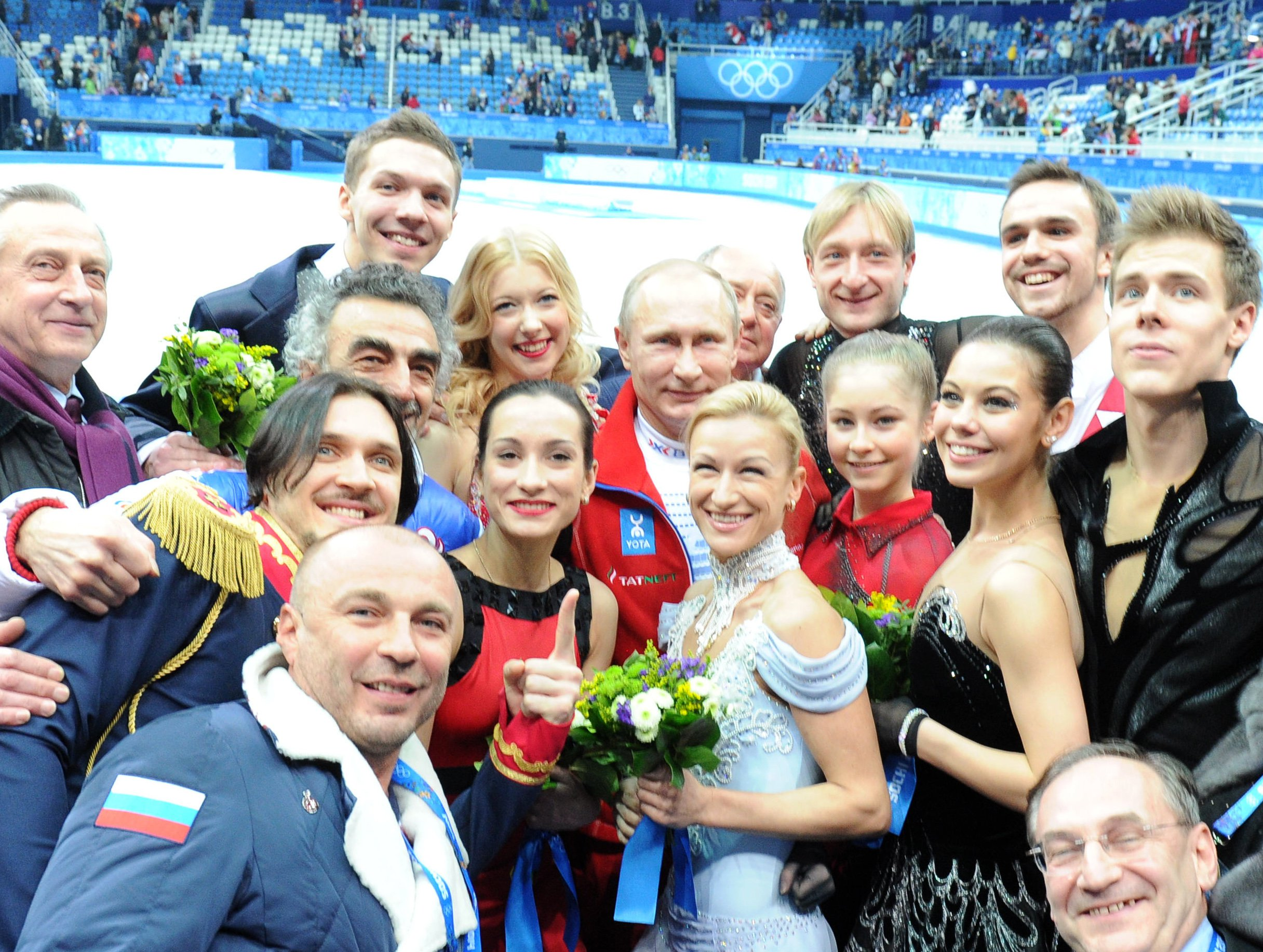 Vladimir Putin visited the Iceberg Skating Palace, where he watched the team figure skating competition (2014-02-09).